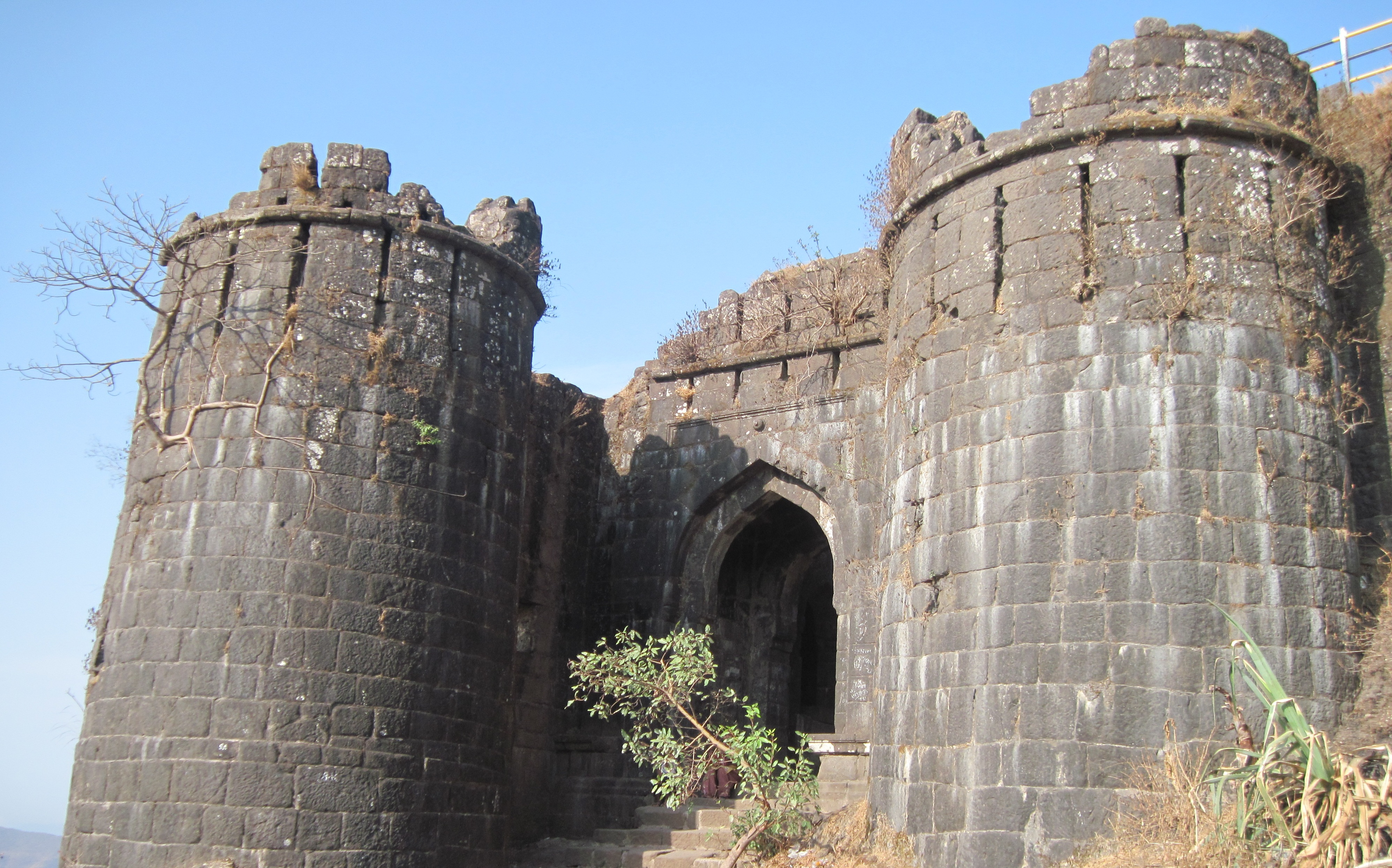 Sinhagadfort in,pune